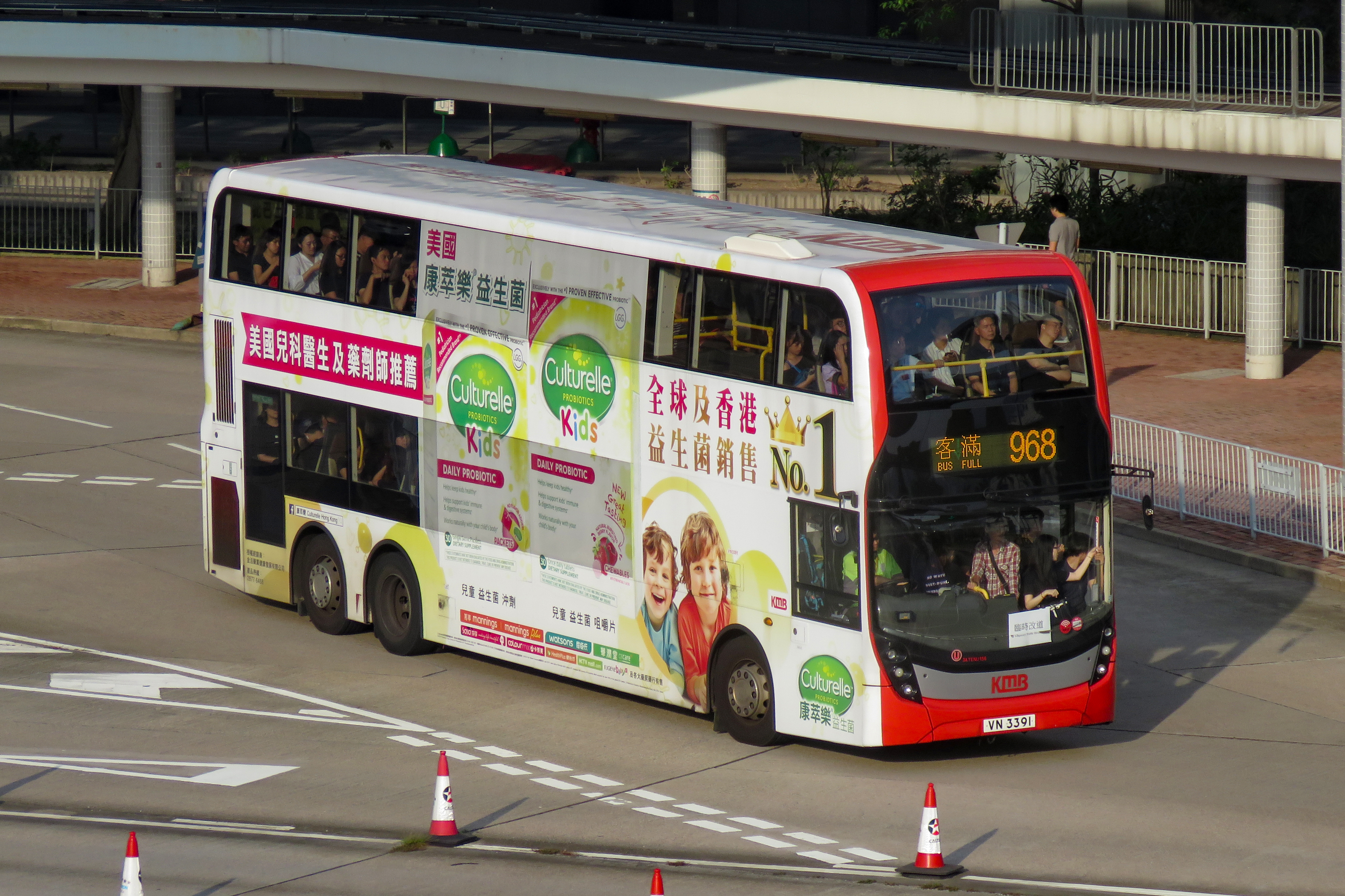 968 is always busy like a bee...